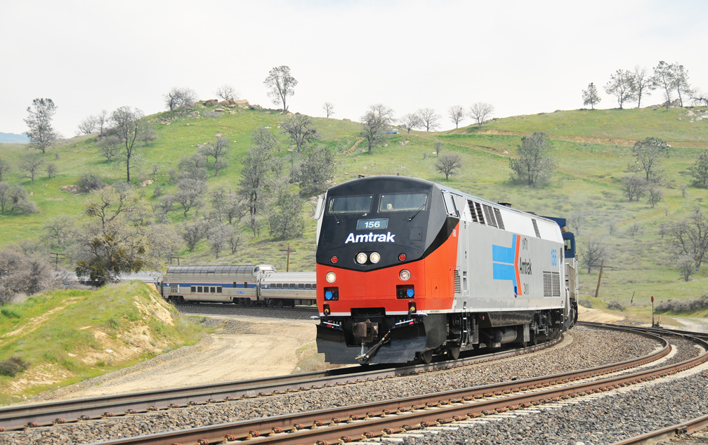 AMTK 156 in its "retro" paint scheme seen on the Tehachapi Loop with a Pacific Rail Society special bound for Bakersfield Apr 2nd 2011